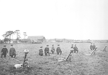 THE ROYAL ENGINEERS EXPERIMENTAL STATION AT PORTON DOWN DURING THE FIRST WORLD WAR Description: Mortar section with 2 inch Toffee Apple mortar bombs during trials at Porton.